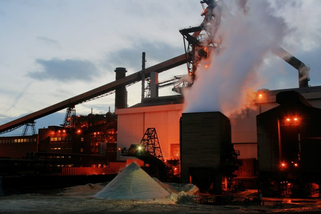 Redcar Blast Furnace. In fore ground : granulated slag and the cooling tower of the granulation system.